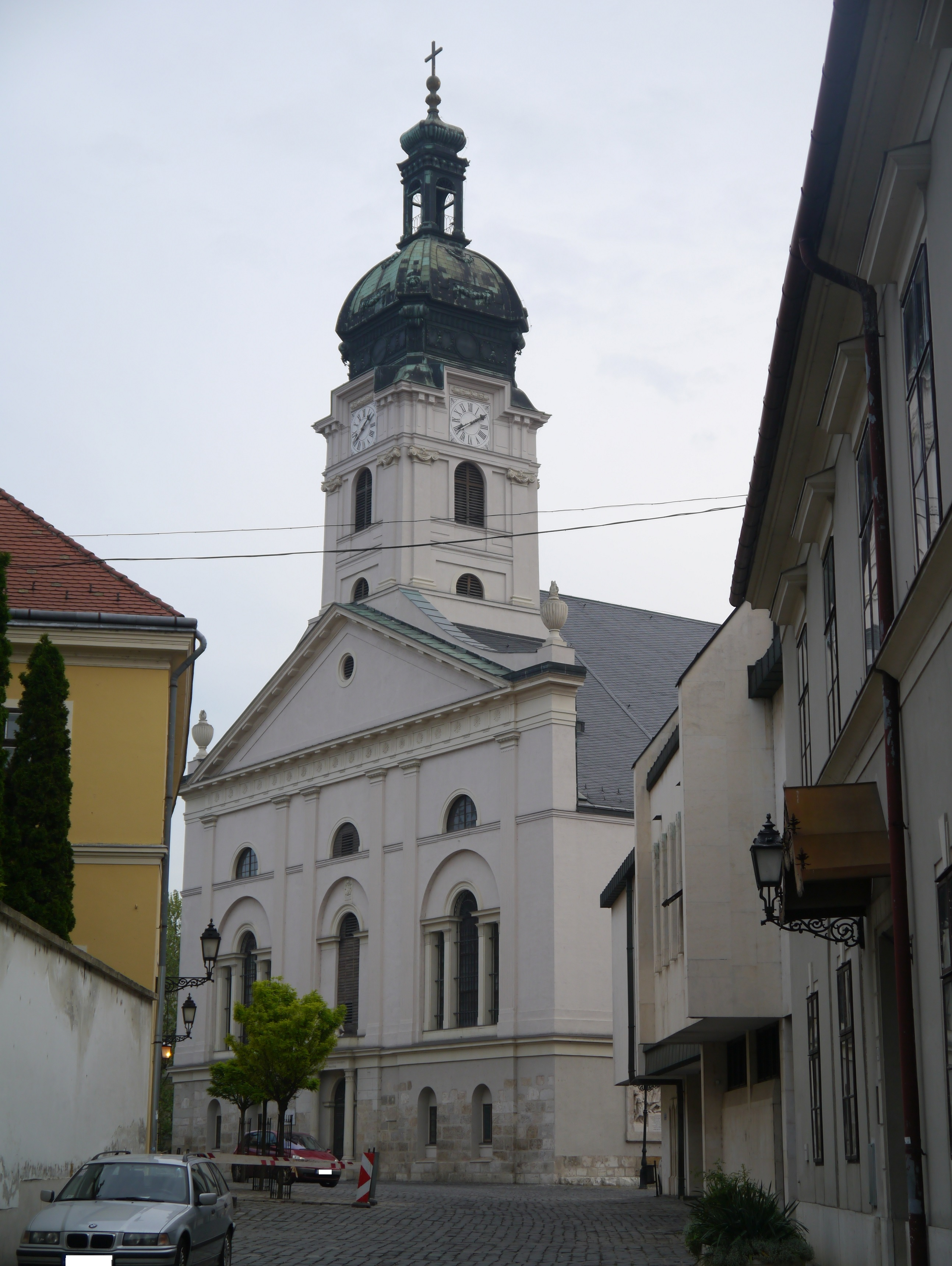 Facade of the Cathedral St. Mary Assumption, Györ, Western Hungary